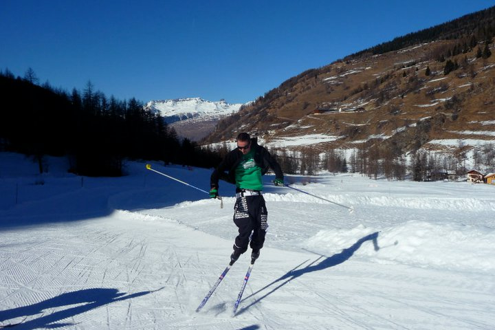 Skoarding April in Peisey Nancroix